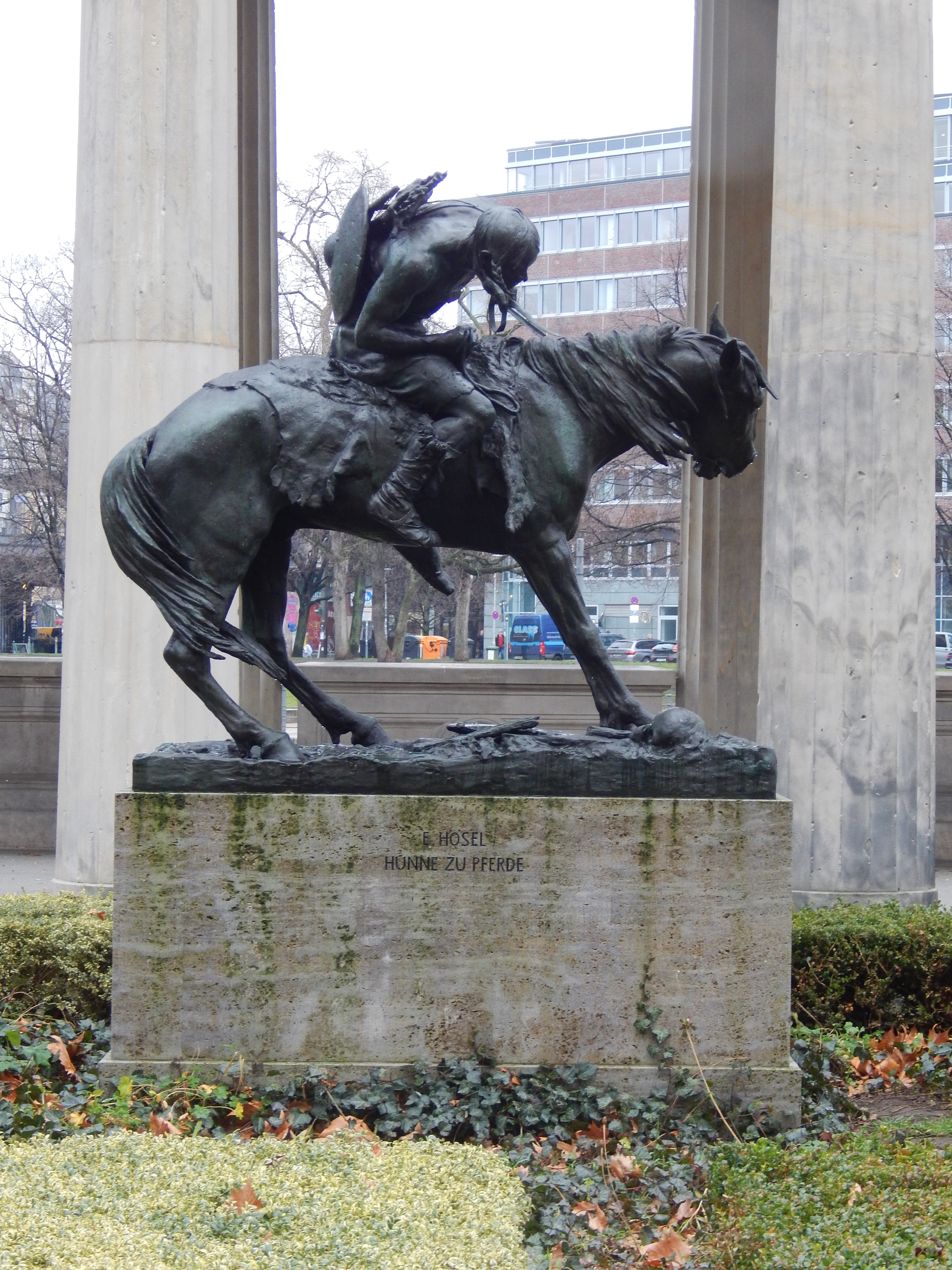 Sculpture "Hunne zu Pferde"